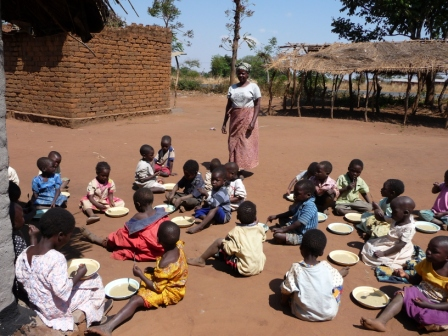 Community Based Childcare Centers care for AIDS orphans in Malawi, this one is supported by Feed The Children